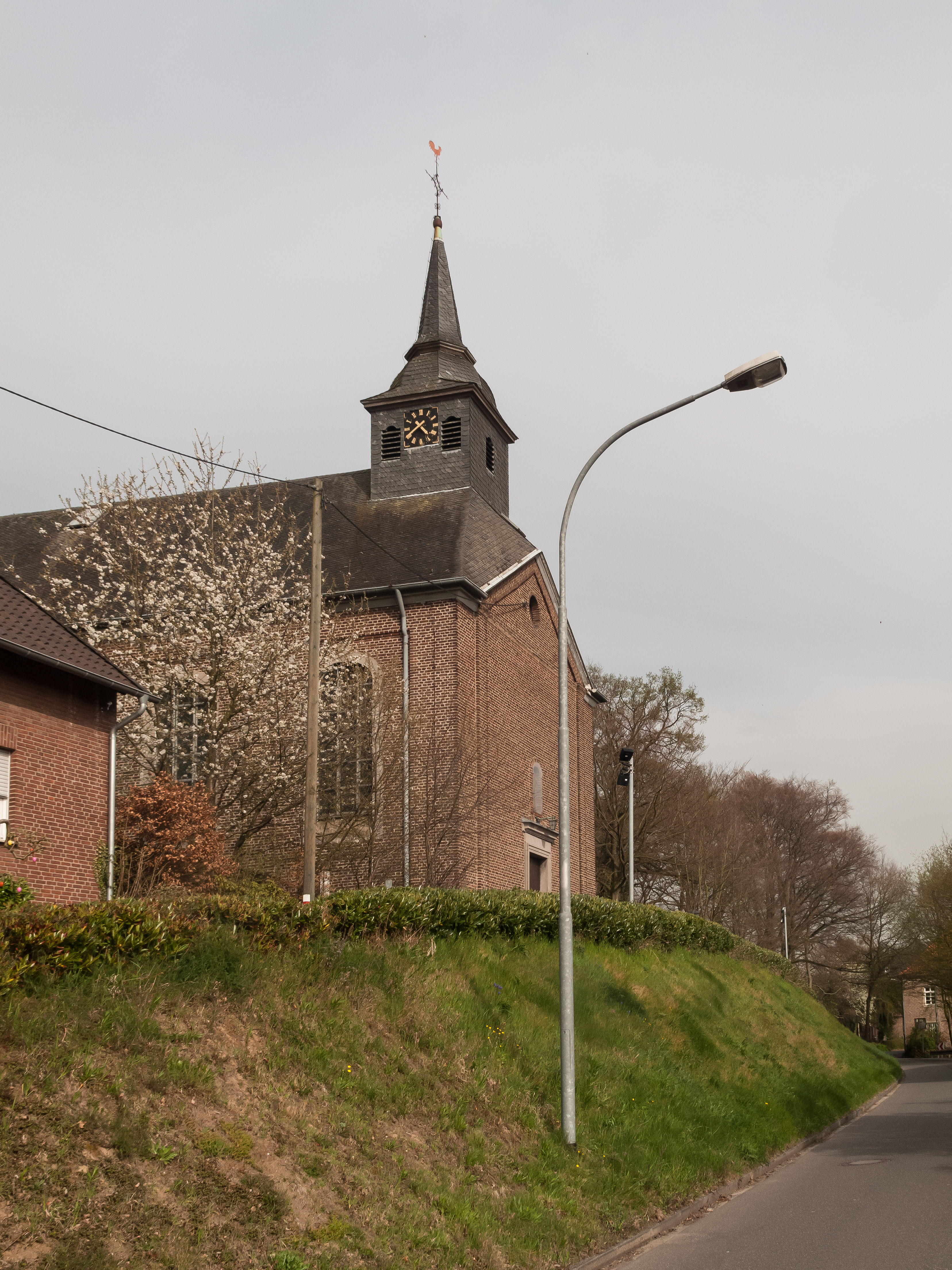 Lüttelforst, church: die katholische Pfarrkirche Sankt Jakobus This is a photograph of an architectural monument., no. 58